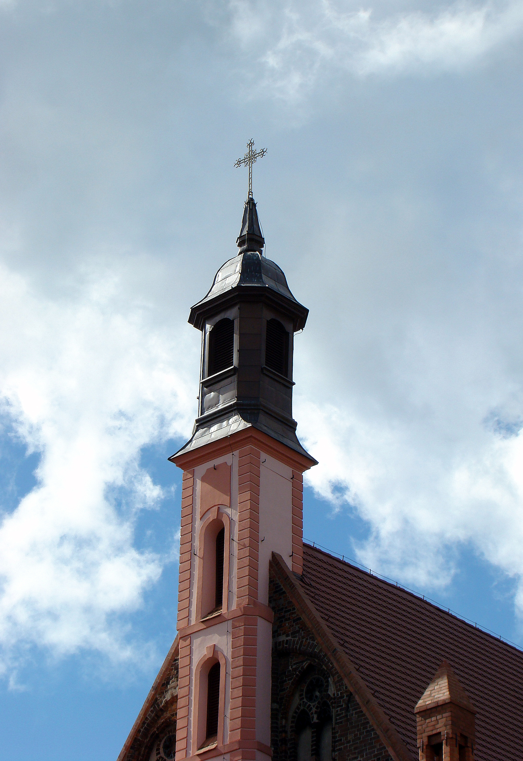 St. John the Evangelist Church (Flèche), Szczecin, Poland